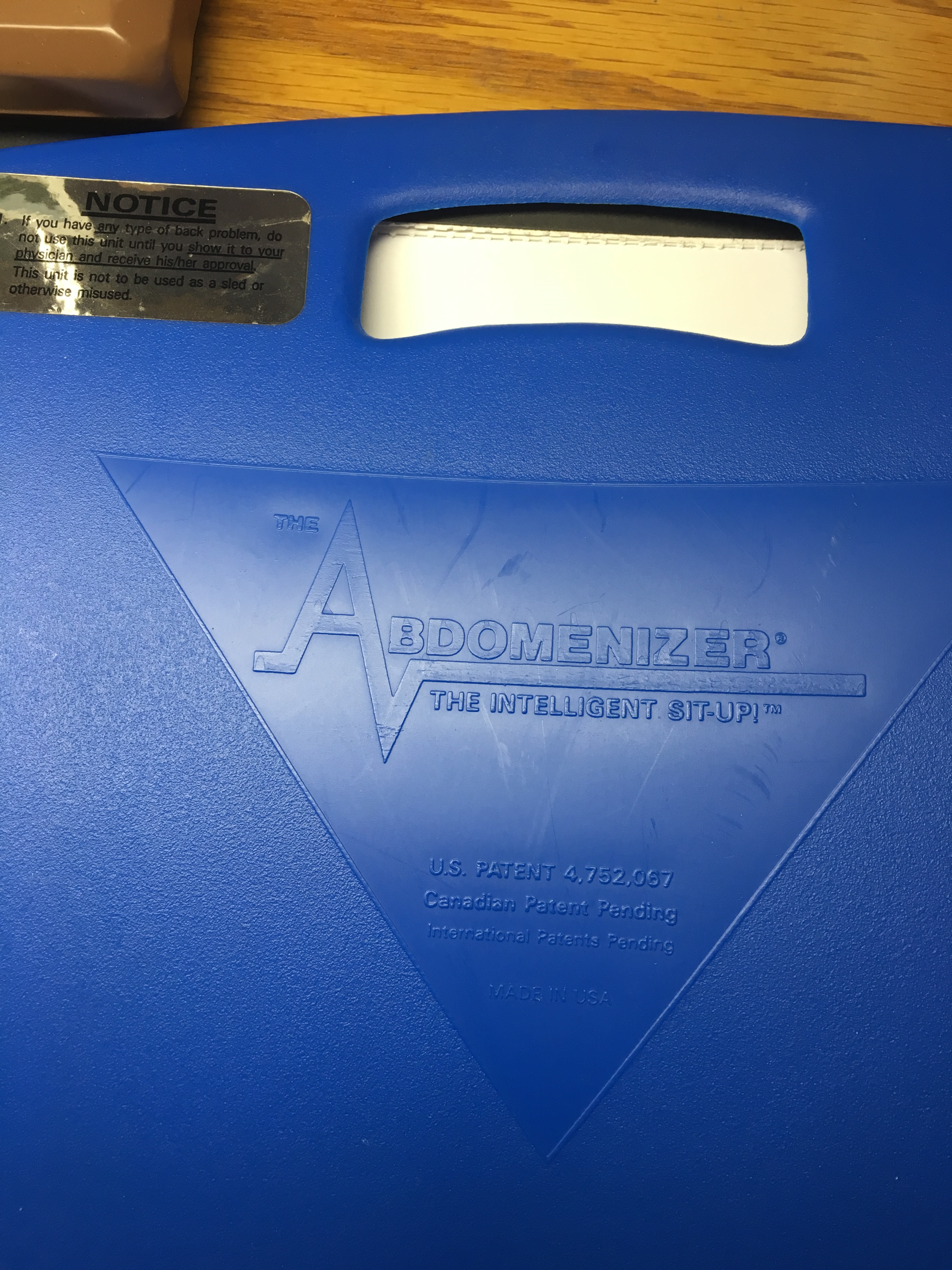 Closeup image of Abdomenizer warning labels and logos